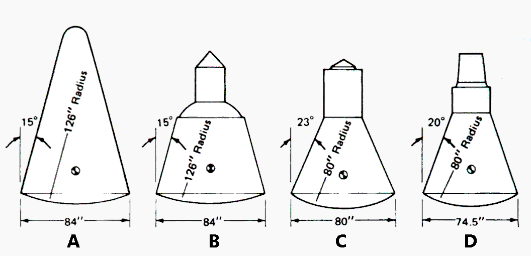 Four designs for the Mercury spacecraft of which the two last were used